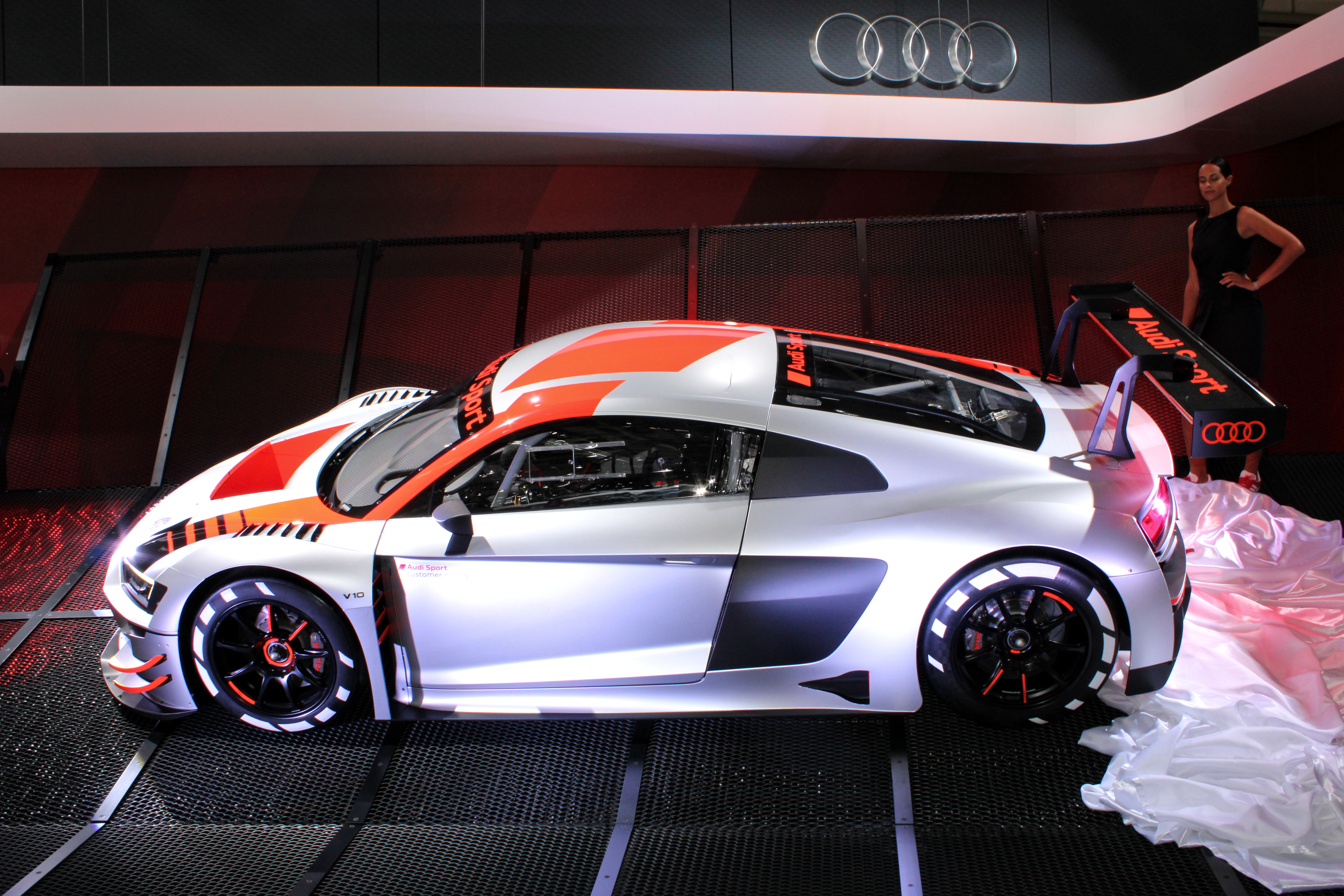 Audi R8 LMS GT3 at Paris Motor Show 2018